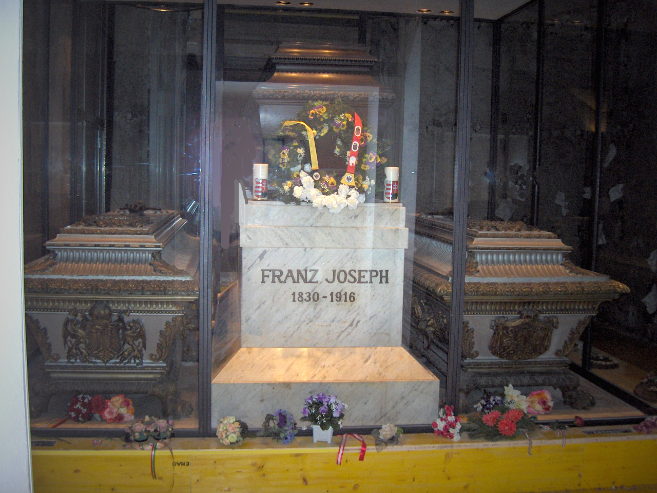 Tomb of Emperor Franz Josef (1830 - 1916); Kaisergruft, Vienna